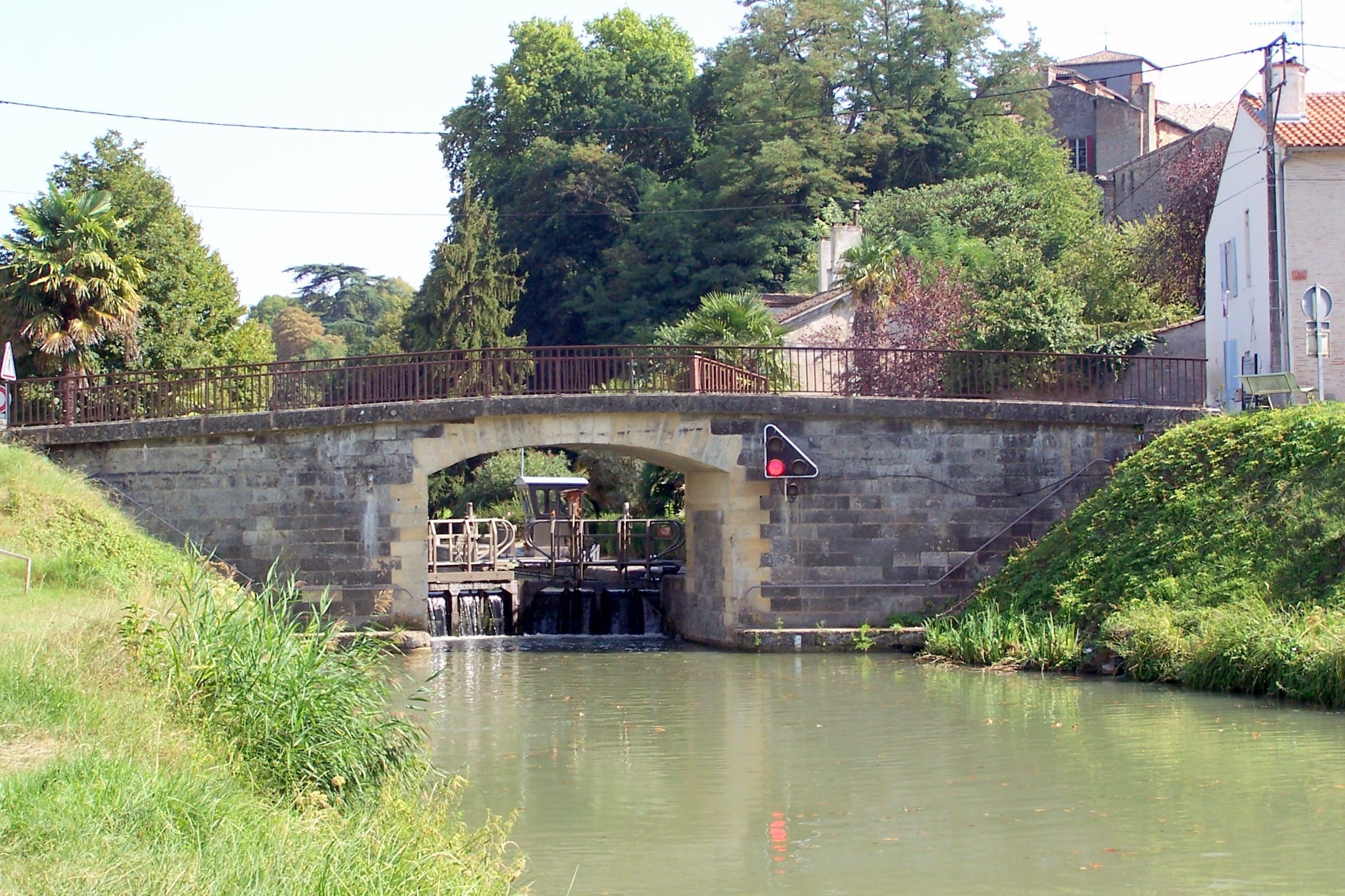 Lock # 44 in Le Mas-d'Agenais (Lot-et-Garonne, France)